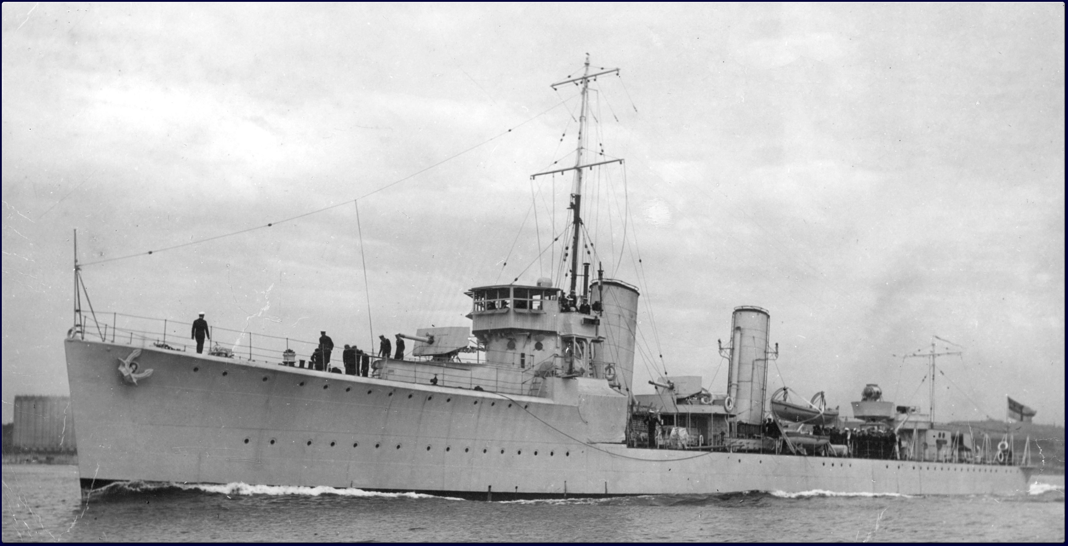 Photograph of Canadian destroyer HMCS Champlain (formerly HMS Torbay).